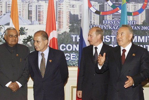 ALMATY. A meeting of the heads of state and governments of member countries of the Conference on Interaction and Confidence Building Measures in Asia. President Putin with Indian Prime Minister Atal Bihari Vajpayee, Turkish President Ahmet Necdet Sezer and Kazakh President Nursultan Nazarbayev (left to right).